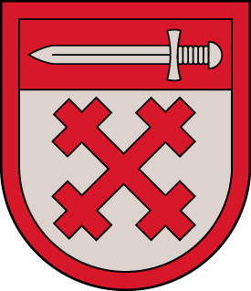 Coat of arms of Lielvārde Municipality, Latvia